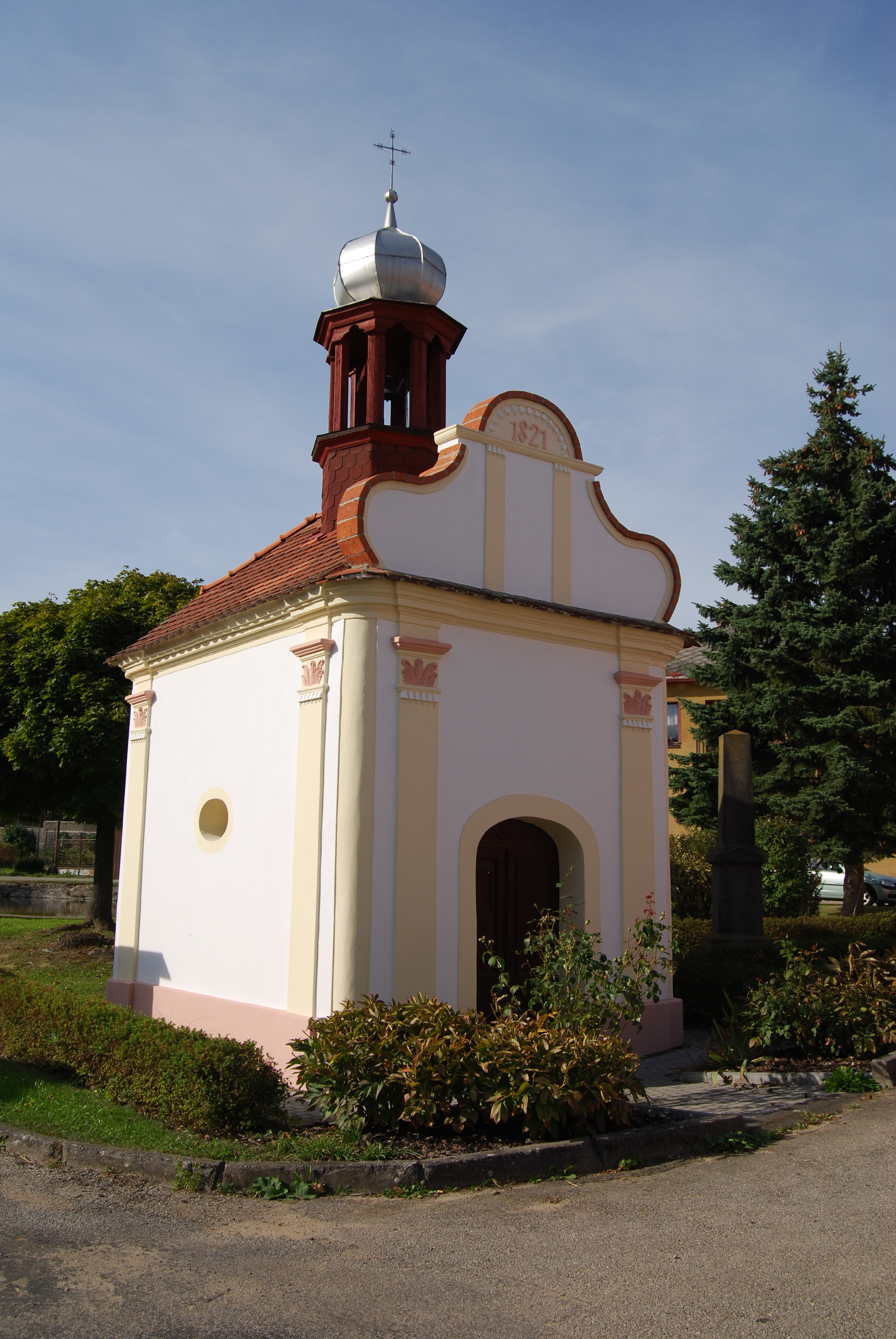 Truskovice village in Strakonice District, Czech Republic. Chapel